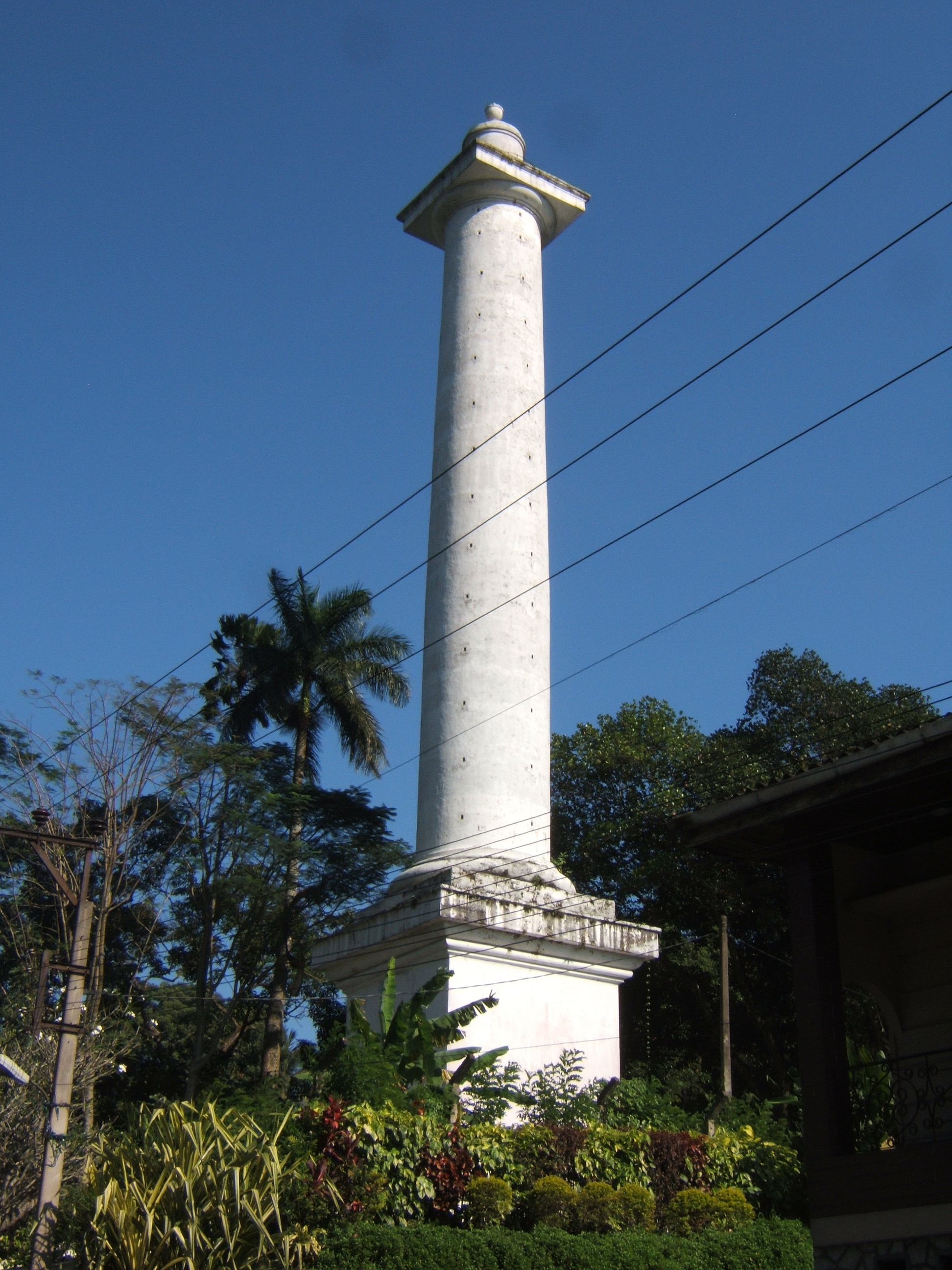 Photograph of Captain Dawson Tower Kadugannawa.